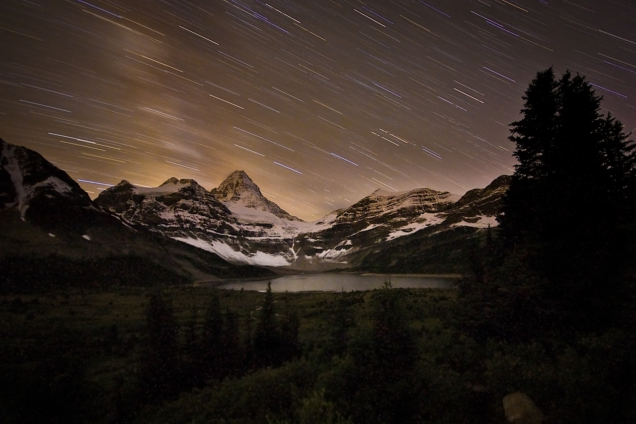 Lake Magog, Mount Assiniboine Provincial Park, British Columbia, Canada.